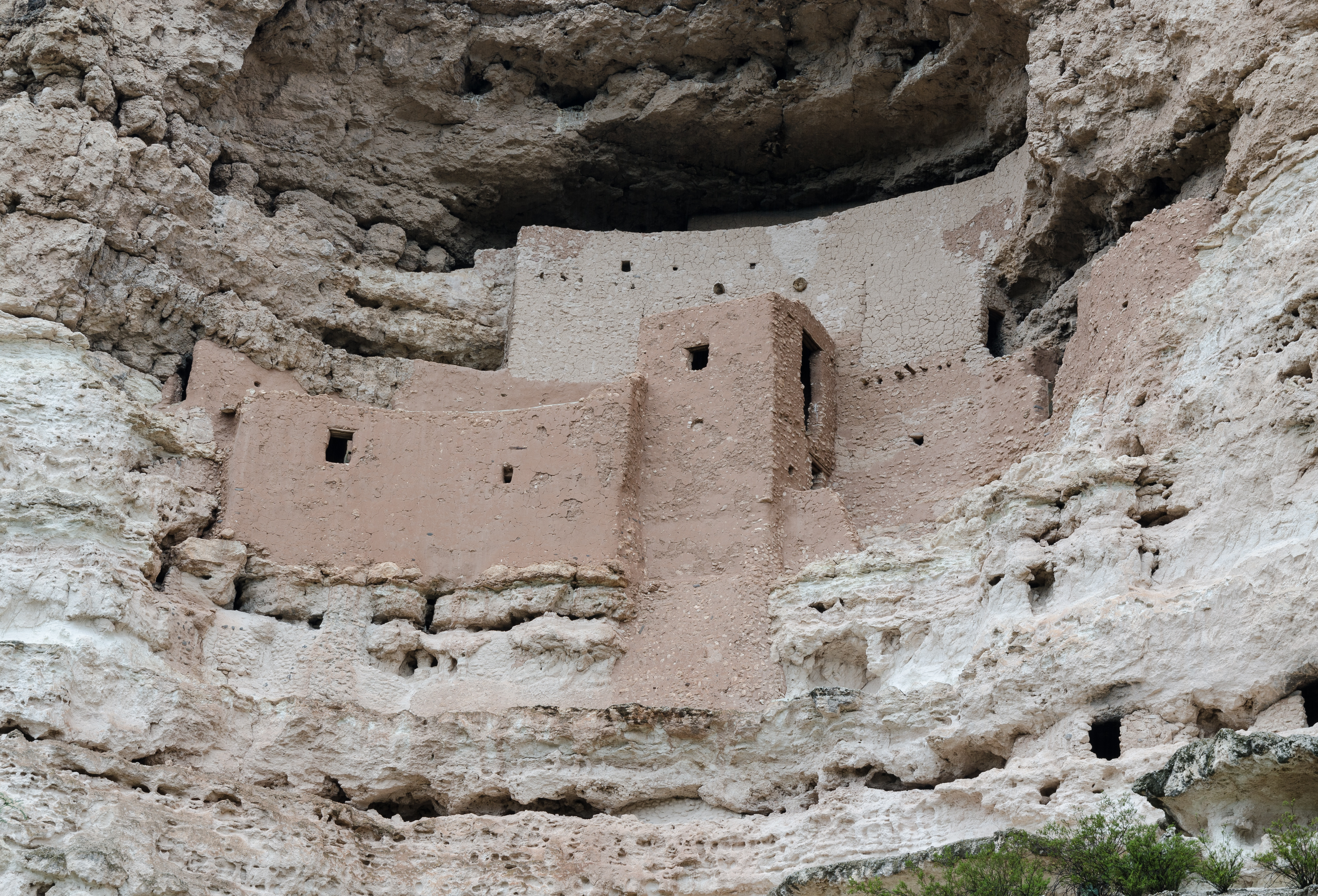 Montezuma Castle National Monument